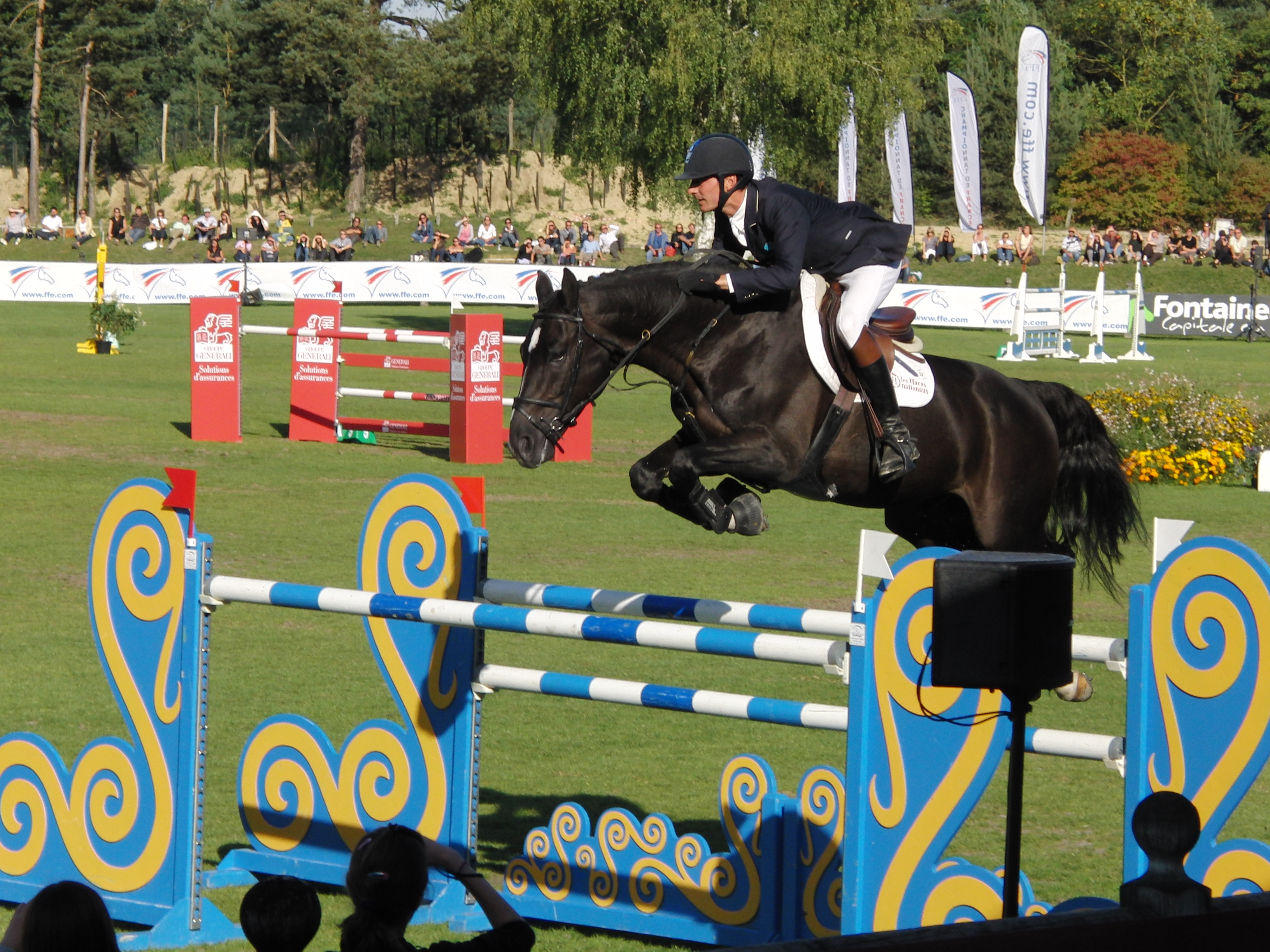 Nicolas Delmotte and Luccianno*HN, Selle français - Championnats de France de saut d'obstacles "Master Pro" 2010 at Fontainebleau, France